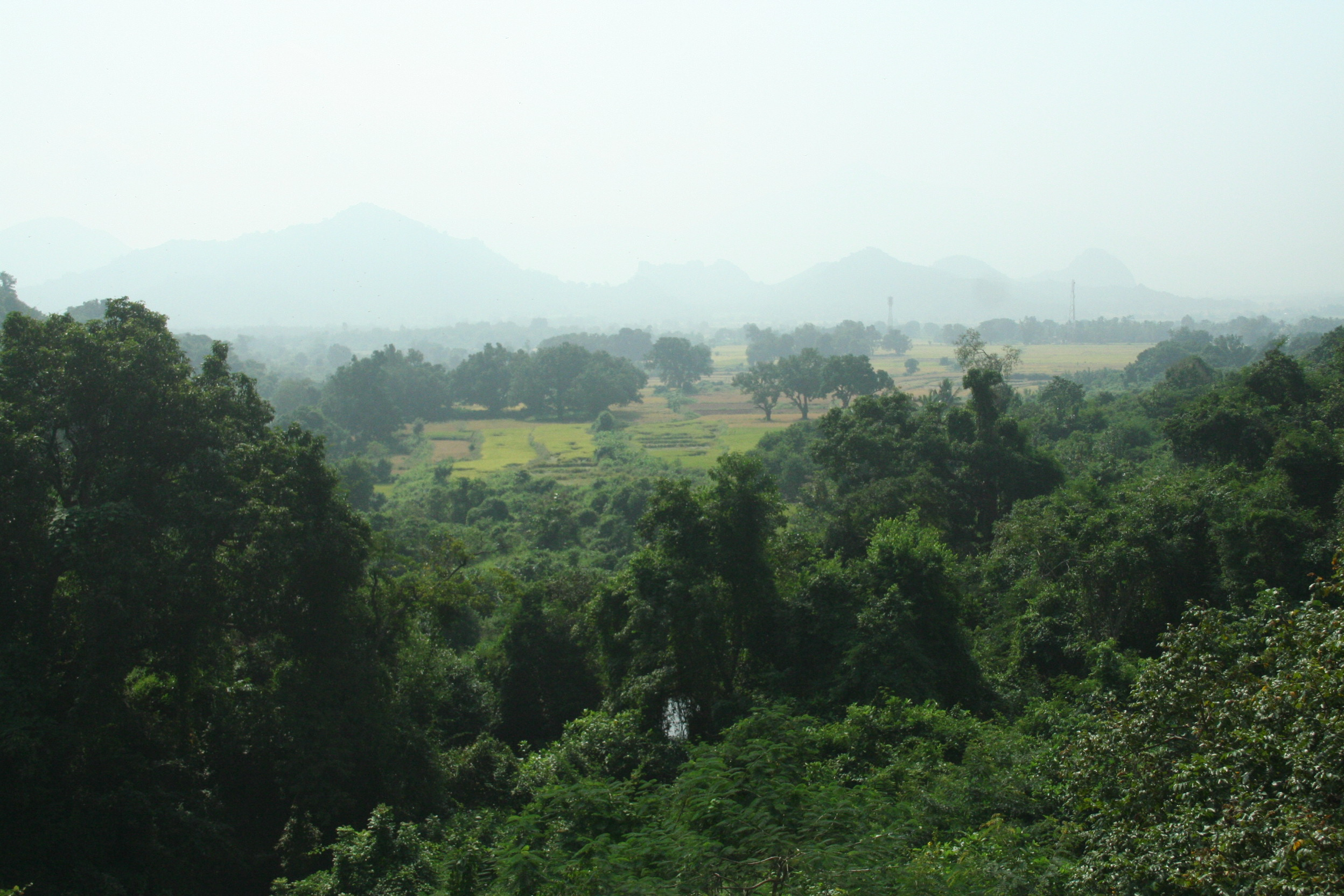 View of hills in Parlakhemundi, Orissa, India